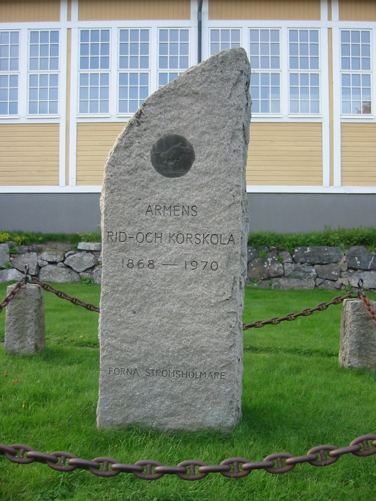 Minnessten vid ridskolan i Strömsholm